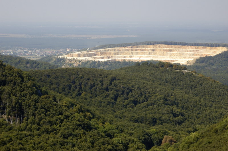 Rohožník from Taricové skaly (620 m)